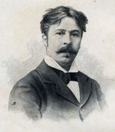 Ábrányi Emil Hungarian poet